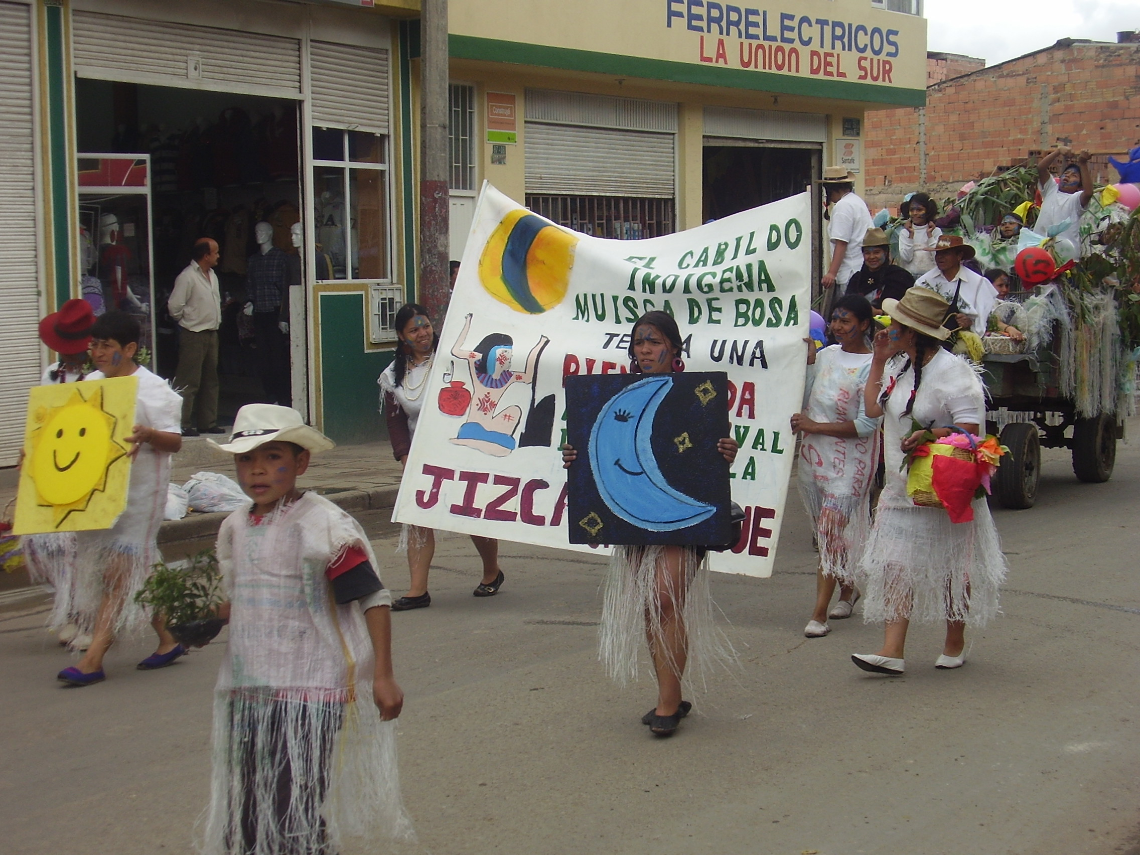 Manifestation of the native town of Bosa (Bogota - Colombia)